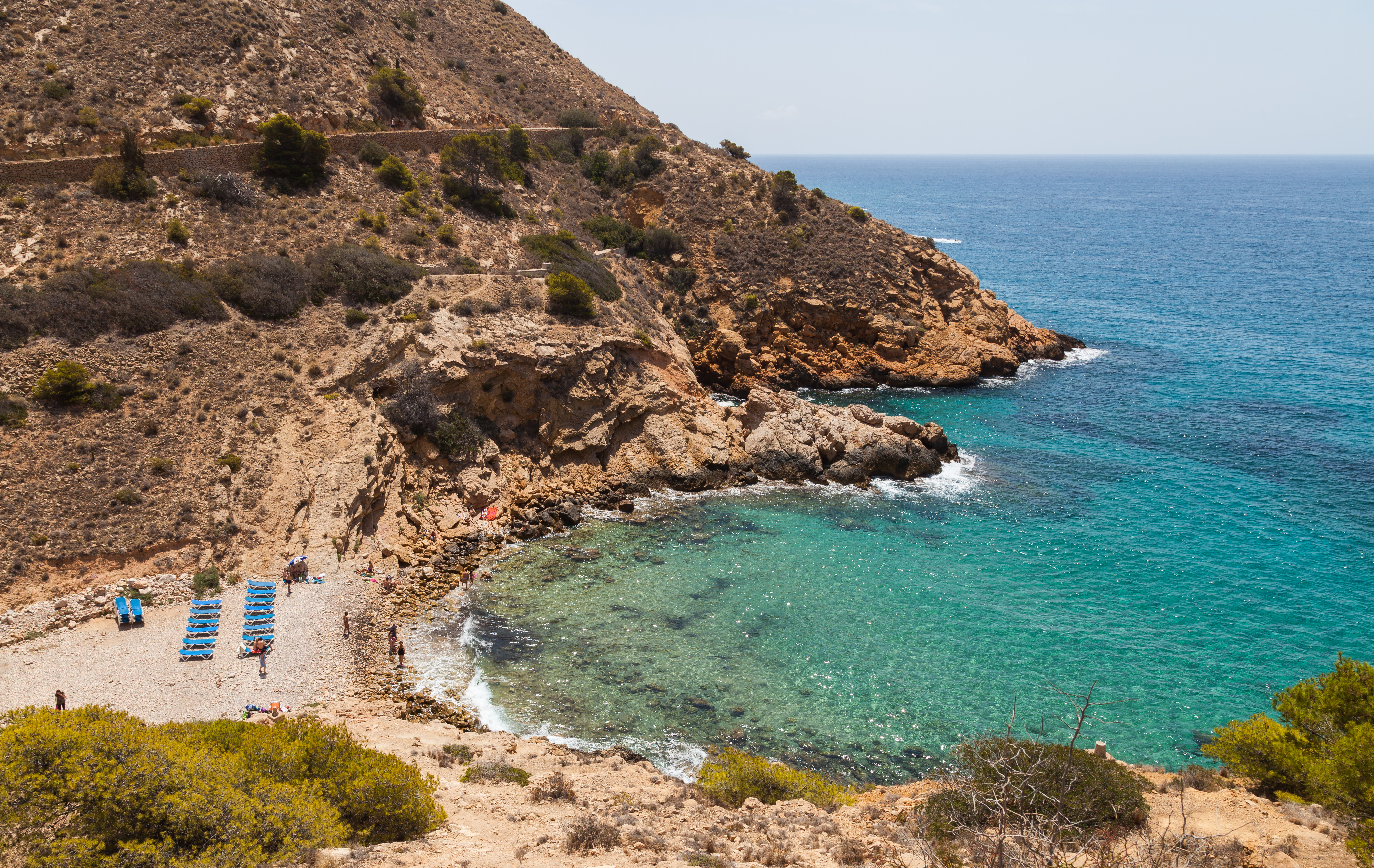 View of the Tio Ximo ("Uncle Ximo") beach in Benidorm, province of Alicante, Spain. The beach is isolated from the crowded beaches in Benidorm and is 70 metres (230 ft) long and 6 metres (20 ft) wide. The sand is fine and of golden colour and the water transparent and quiet.